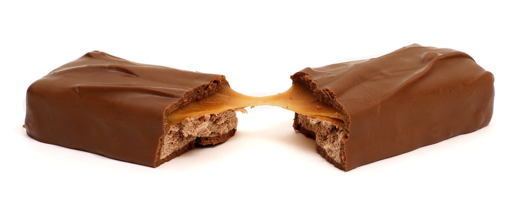 A US Milky Way candy bar, broken in half to show contents.